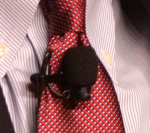 Jeff Atwater speaking at CPAC FL in Orlando, Florida.